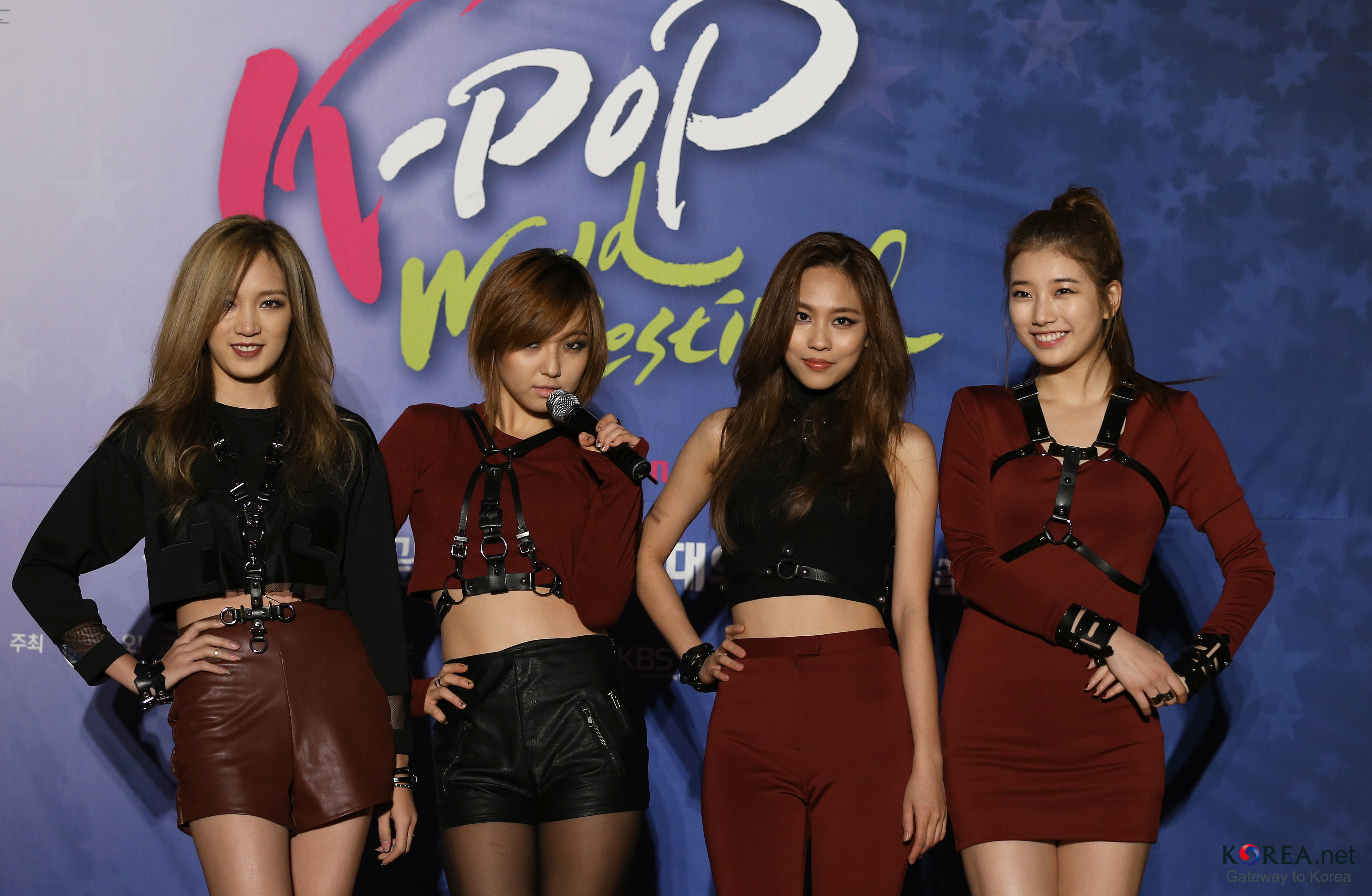 2013 K-POP World Festival in Changwon